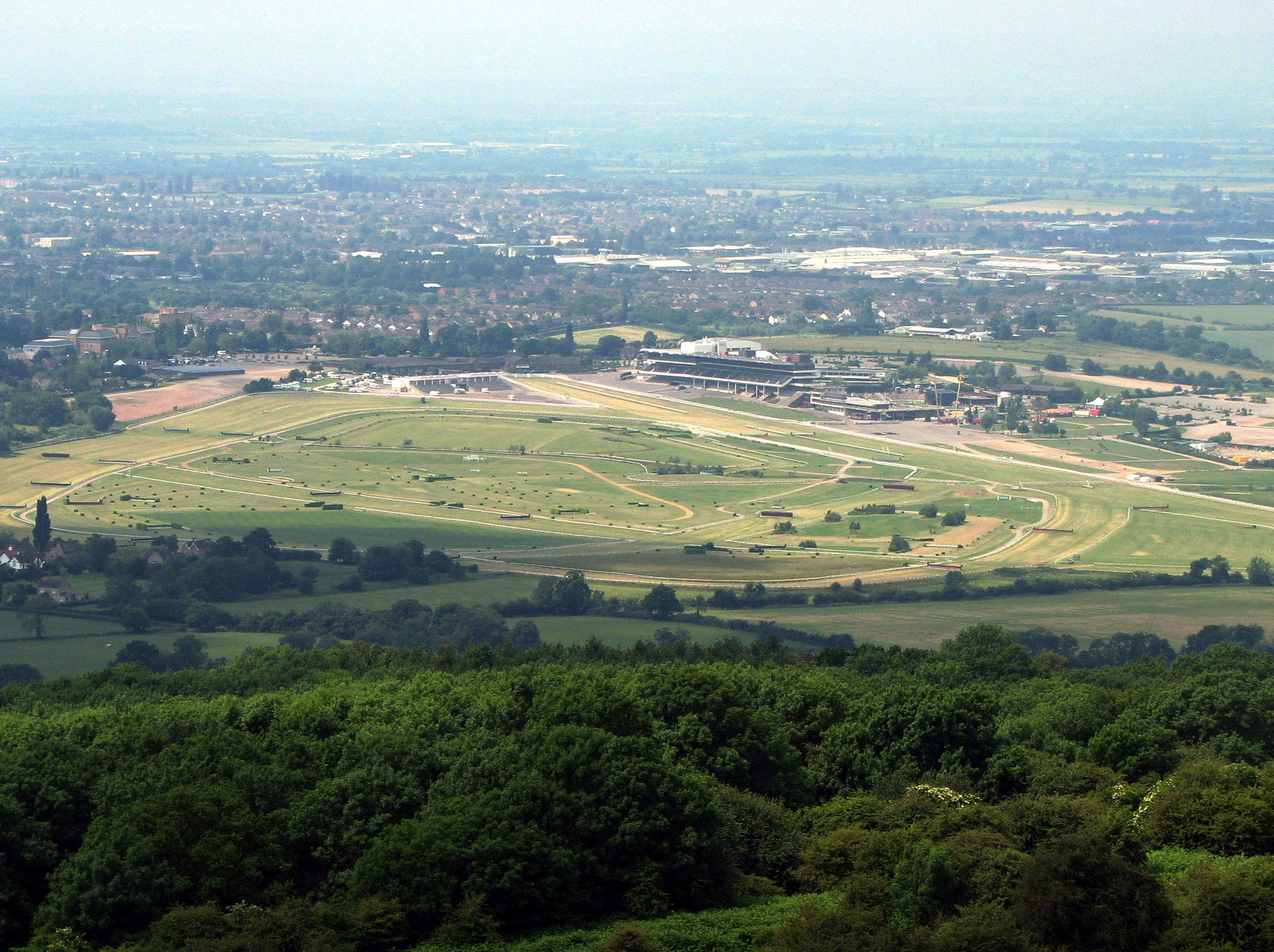 Cheltenham Racecourse, Cheltenham, England, taken from Cleeve Hill. The town of Cheltenham is seen beyond the racecourse. Photographed by Adrian Pingstone in June 2006 and placed in the public domain.